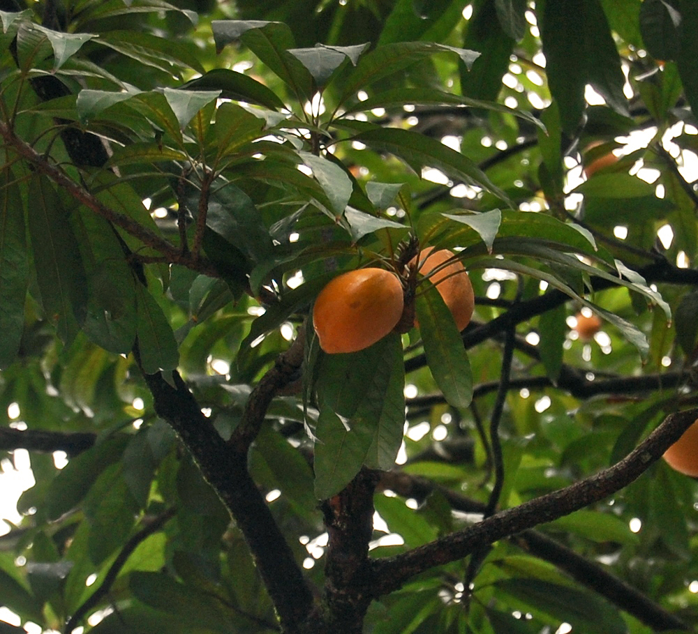 Pouteria campechiana, fruiting branch. Ragunan Zoo, Jakarta.